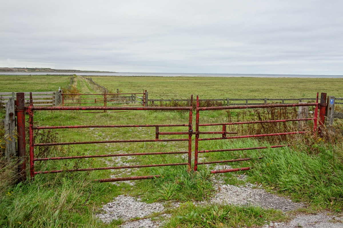 Some gates found in the nature reserve Tågarps Hed in Skåne, Sweden.